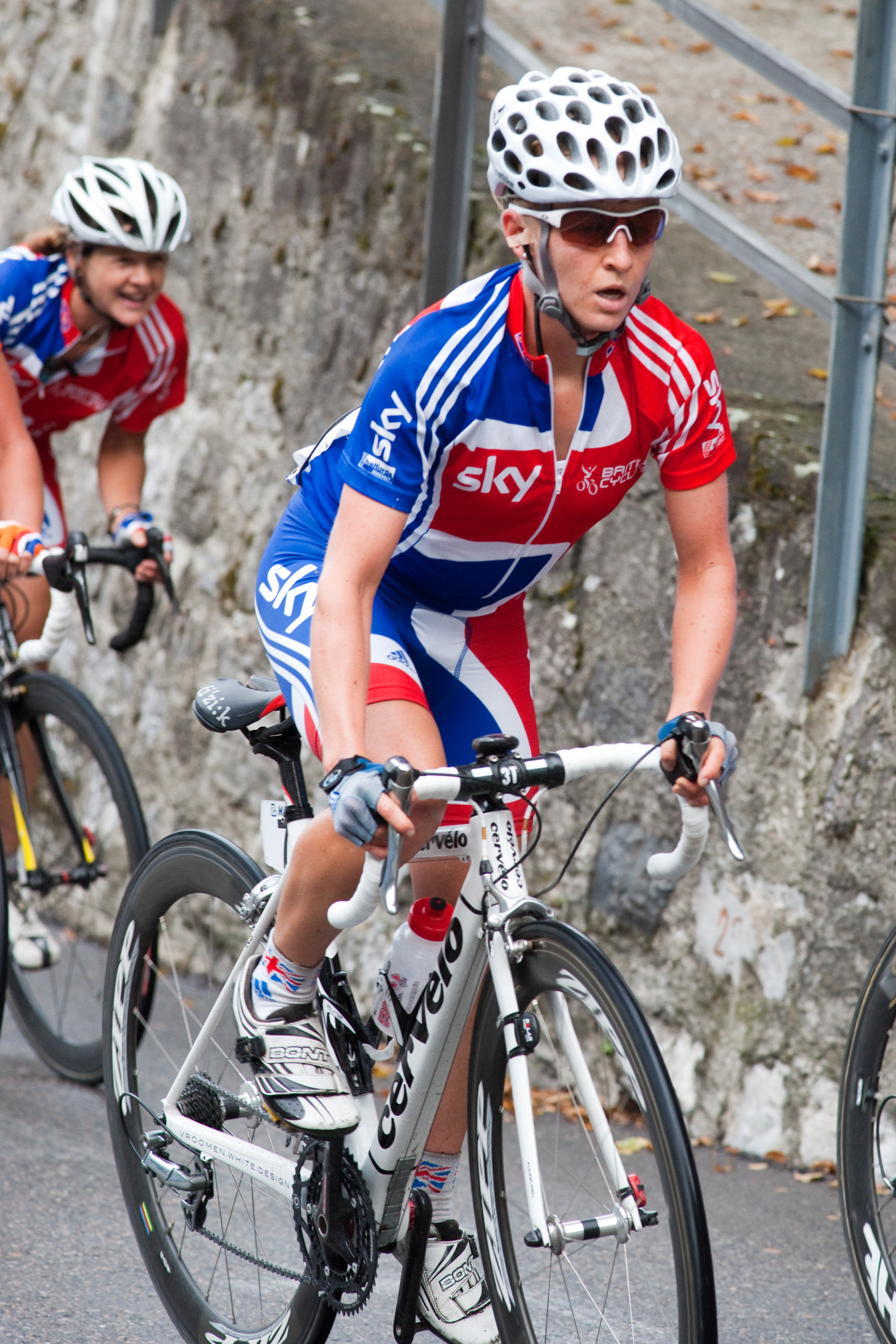 Emma Pooley during the 2009 UCI Road World Championships in Mendrisio, Switzerland.